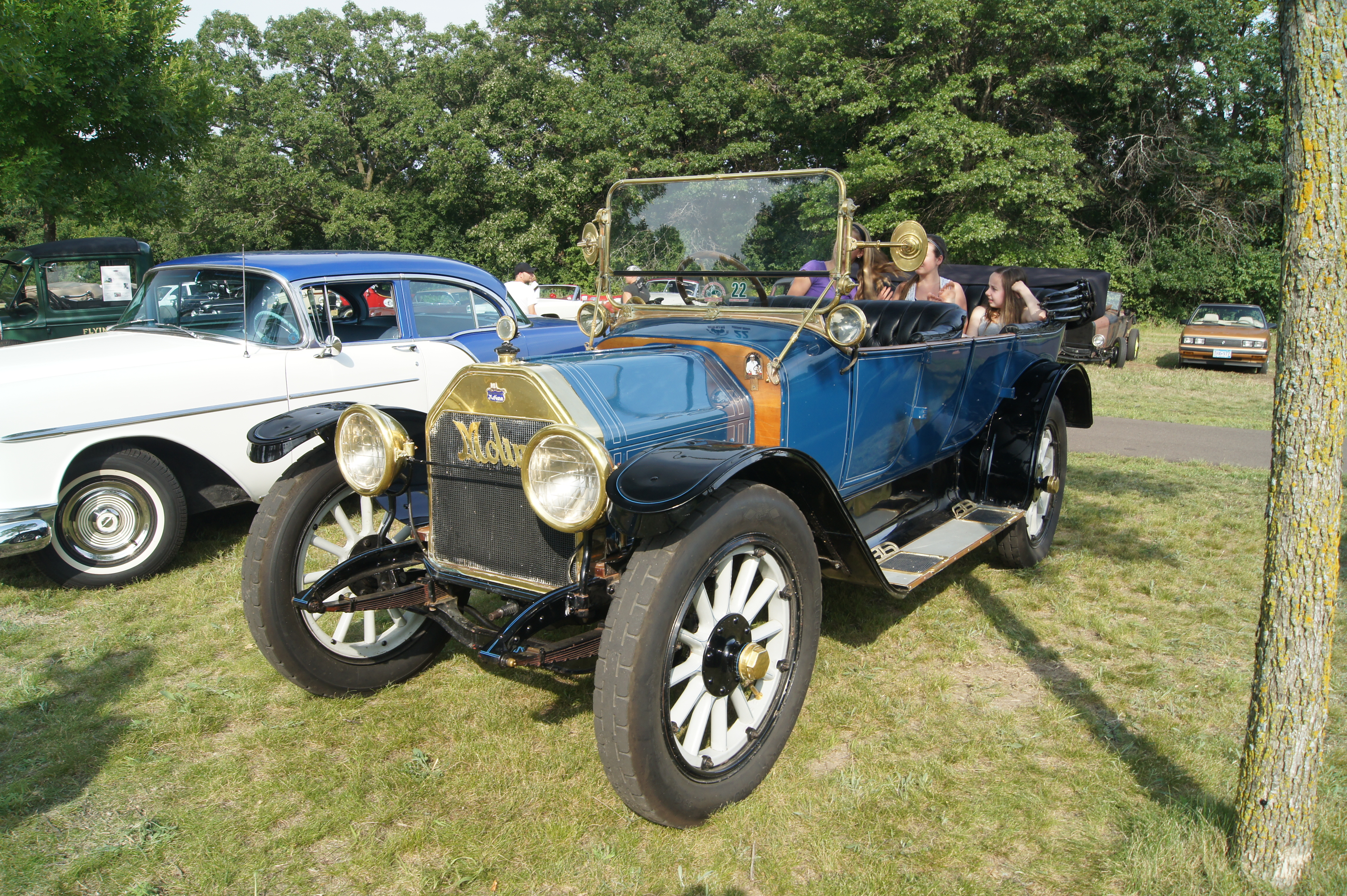 26th Annual New London to New Brighton Antique Car Run August 11, 2012.